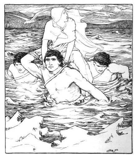 An illustration of the fairy tale The Story of Deirdre created by John D. Batten for Joseph Jacob's collection Celtic Fairy Tales.